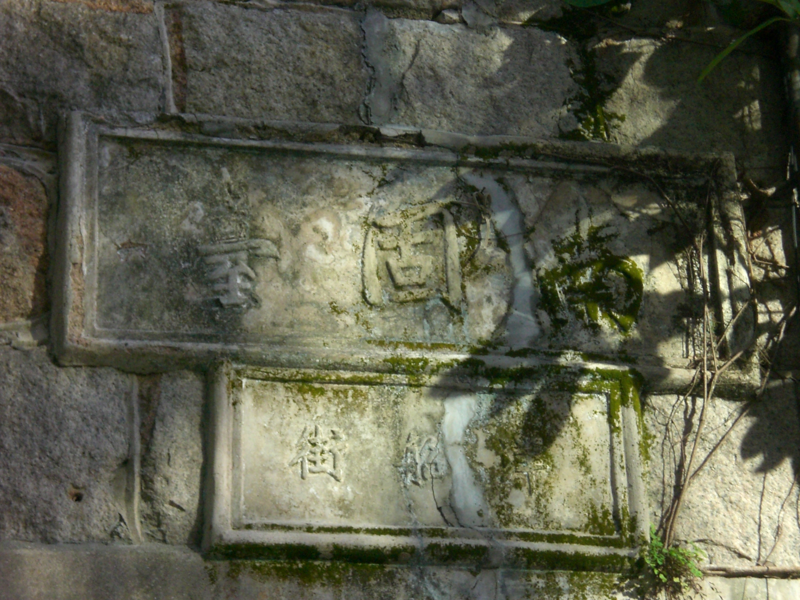 灣仔船街南固臺